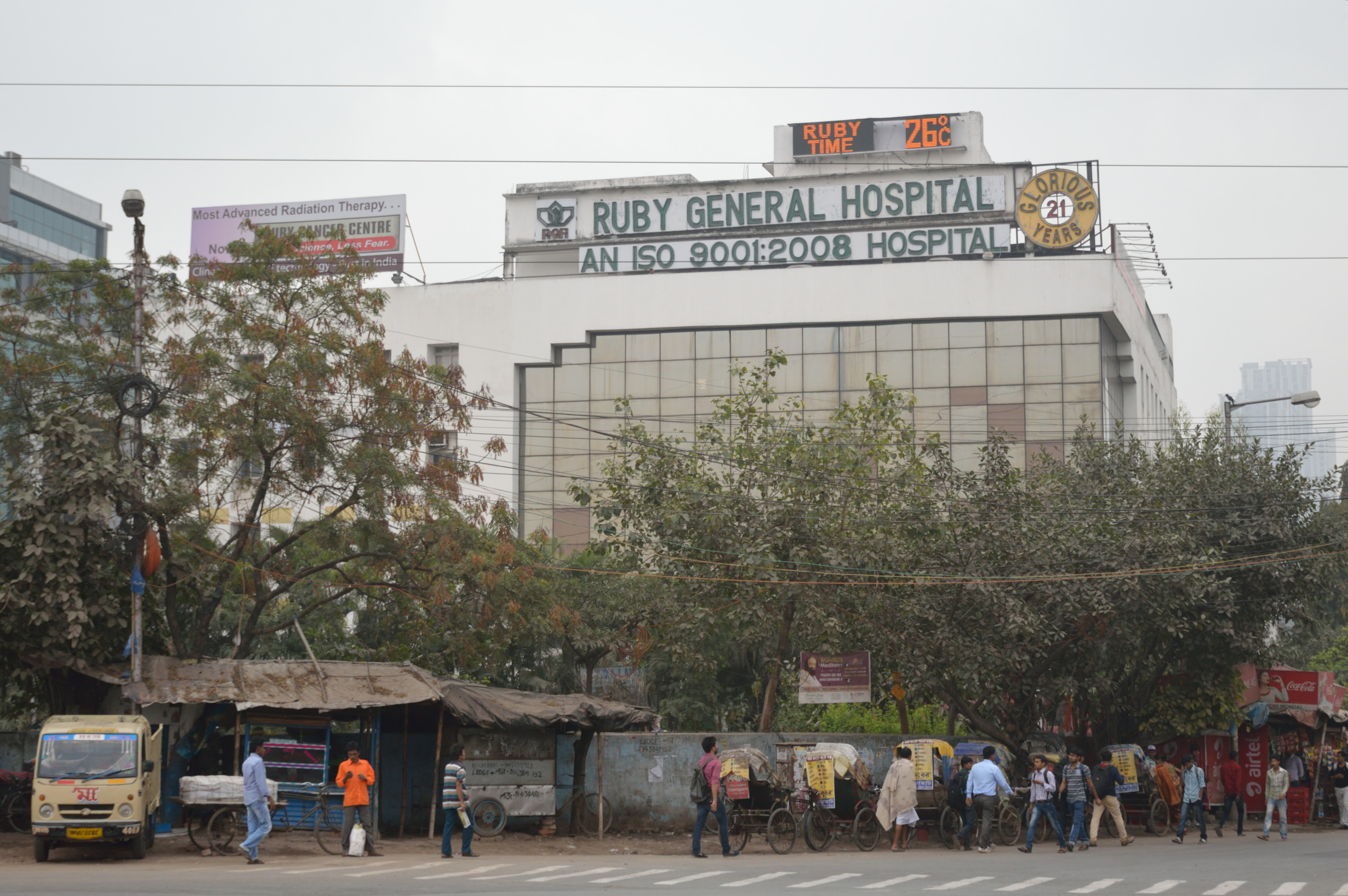 Photographed in Kolkata